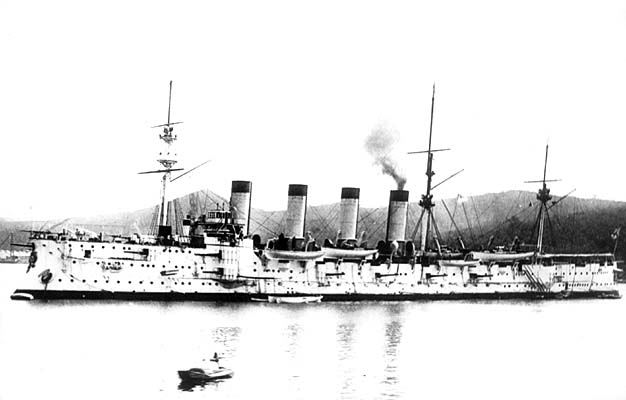 Imperial Russian armoured cruiser «Gromoboy»